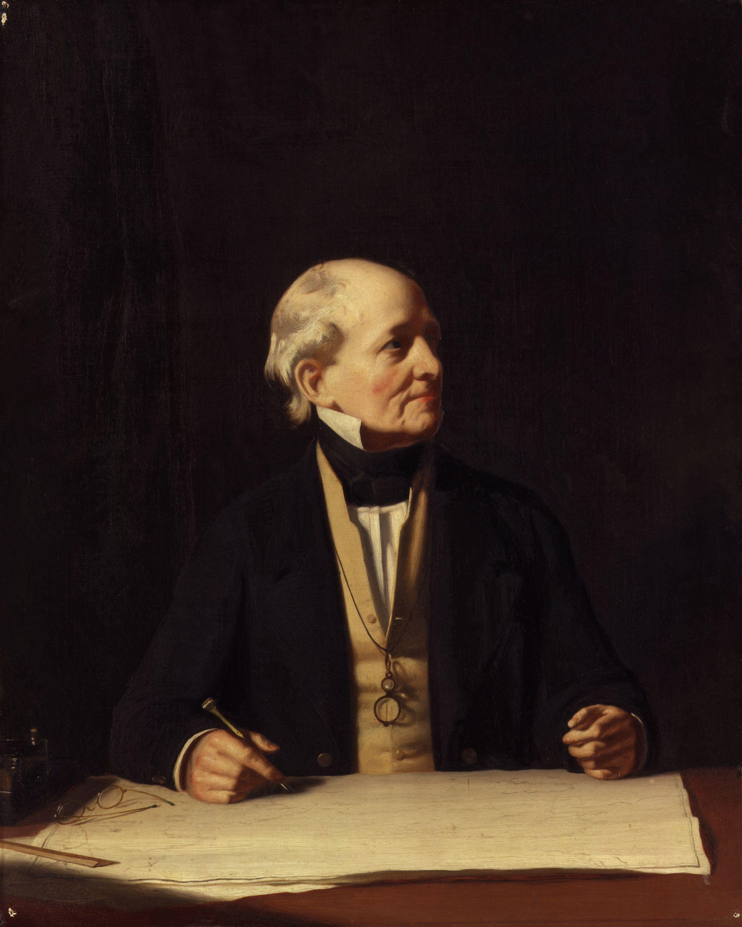 Sir Francis Beaufort, by Stephen Pearce (died 1904). All images in this batch have been confirmed as author died before 1939 according to the official death date listed by the NPG.